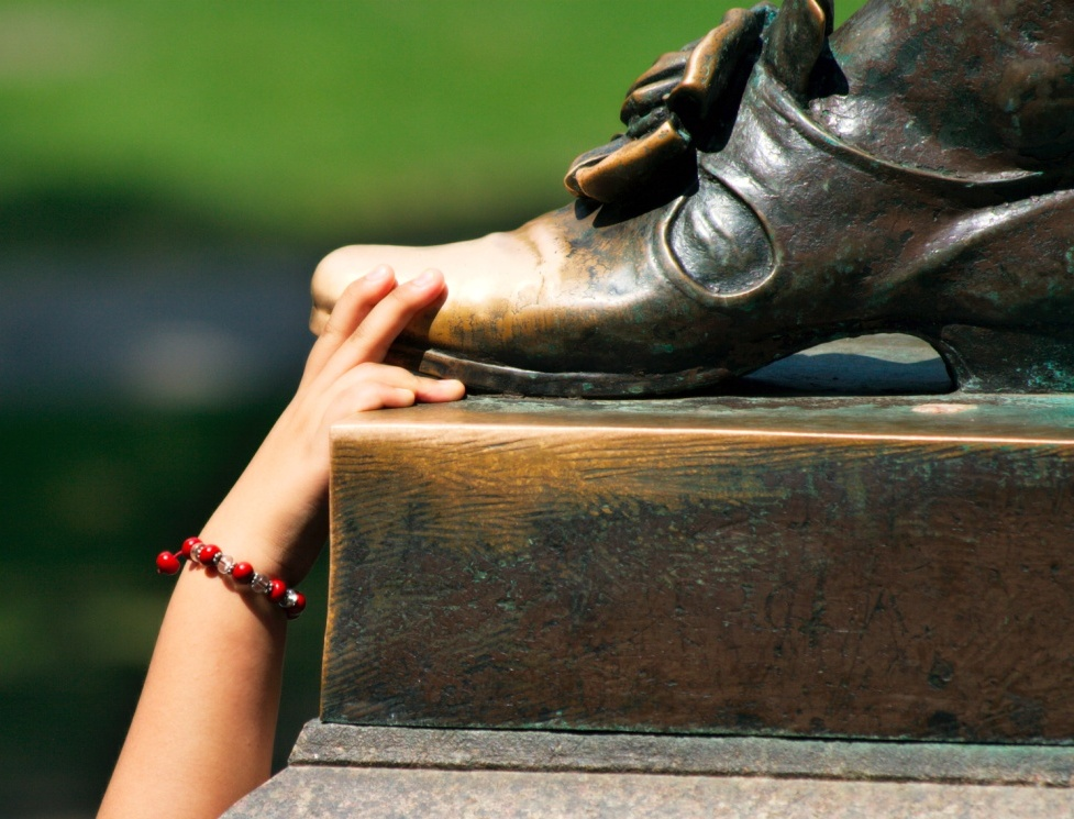 Closeup of hand, fingers rubbing the toe of the John Harvard (statue)